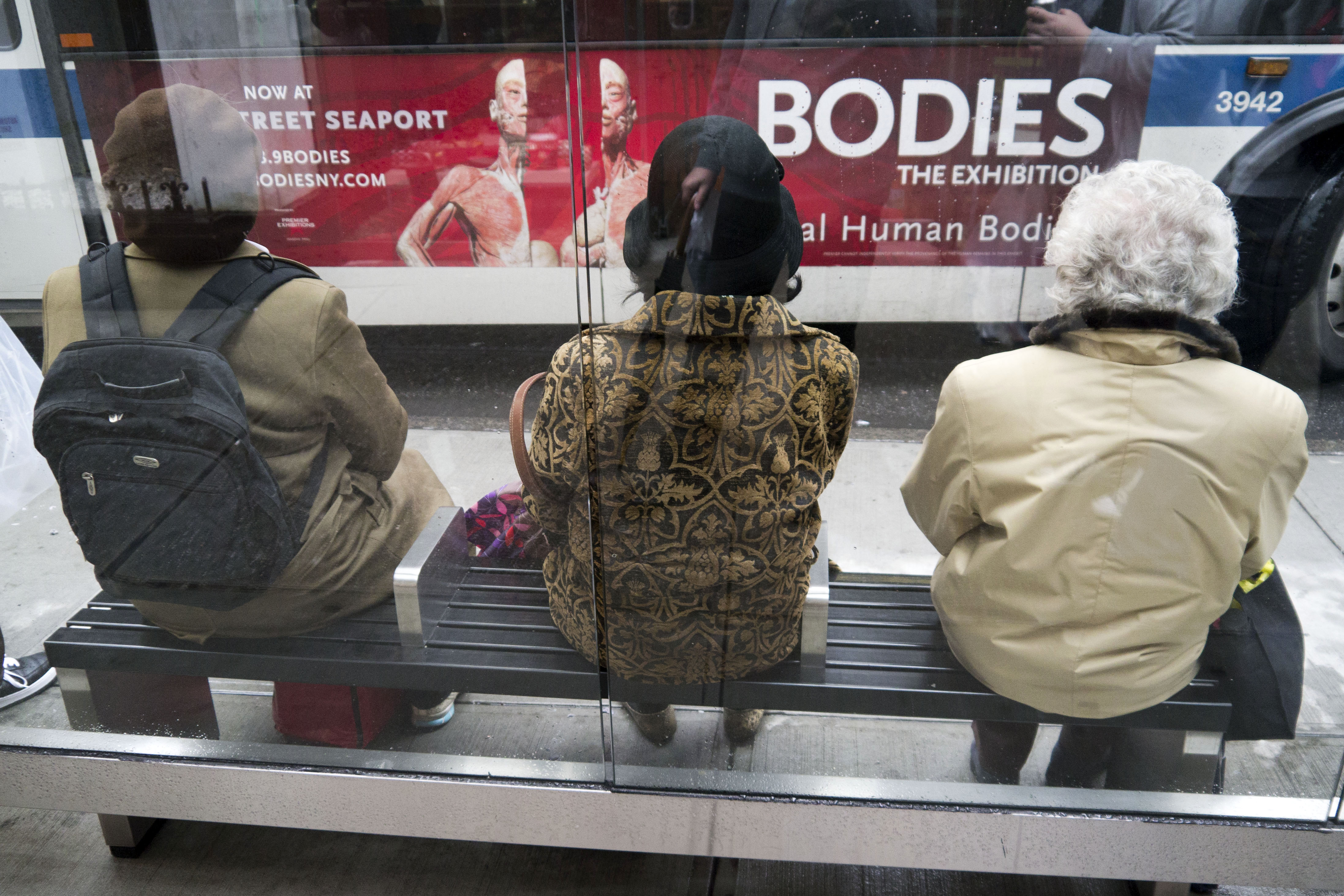 Street life New York 2012